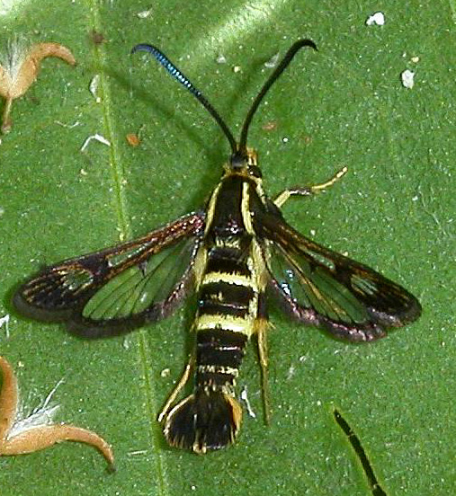 Taken at Consumnes River Preserve in California.